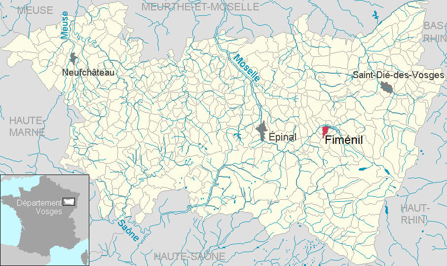 Fiménil in the department of Vosges, Lorraine, France